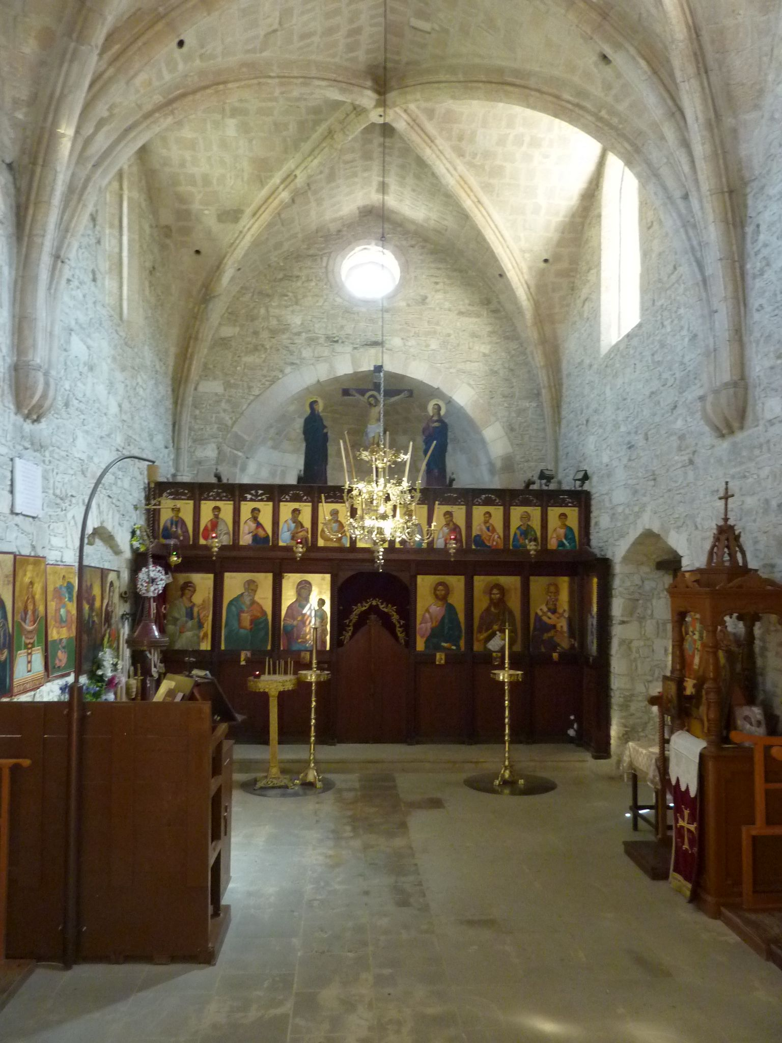 Panagia Stazousa, Cyprus, near Larnaca